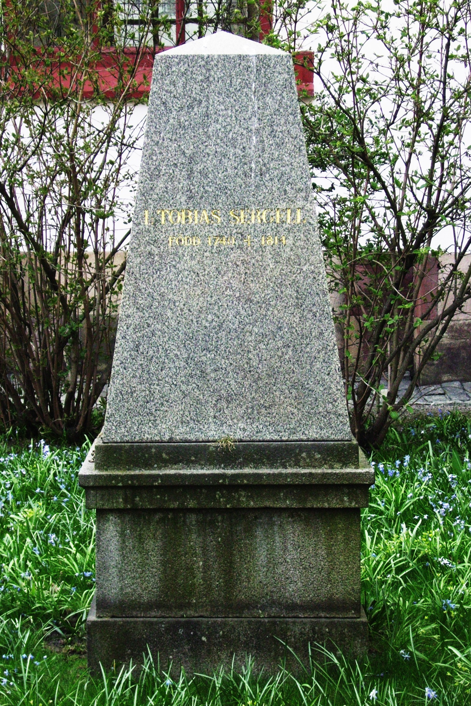 Picture of Tobias Sergels grave at Adolf Fredrik churchyard